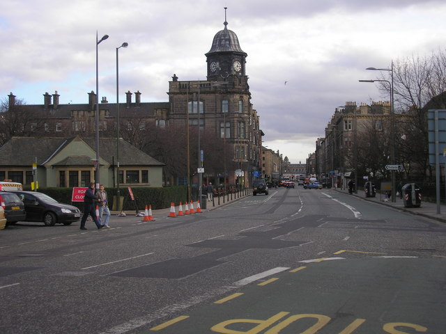 Great Junction Street, Leith showing the former Leith Provident Co-operative Society's 1911 octagonal domed clock tower (note: Leith Provident merged to eventually form Scotmid, but “The Store” in Great Junction Street has closed)